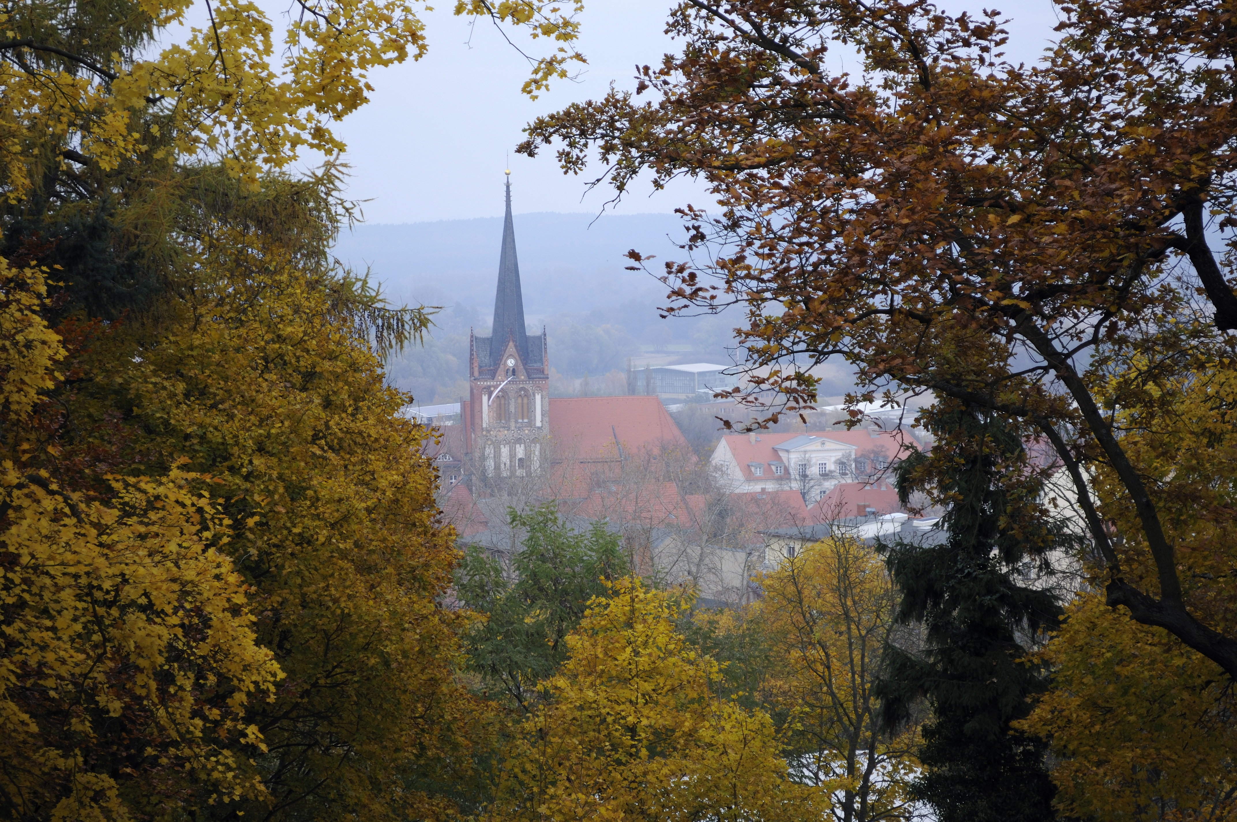 Picture taken in Bad Freienwalde.